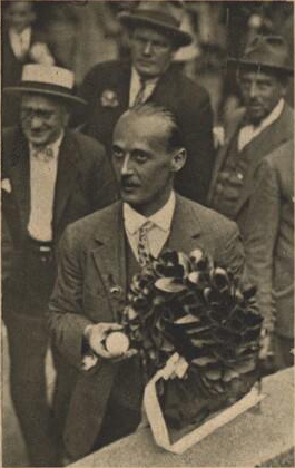 Czech gymnast and functionary Miroslav Klinger in 1928